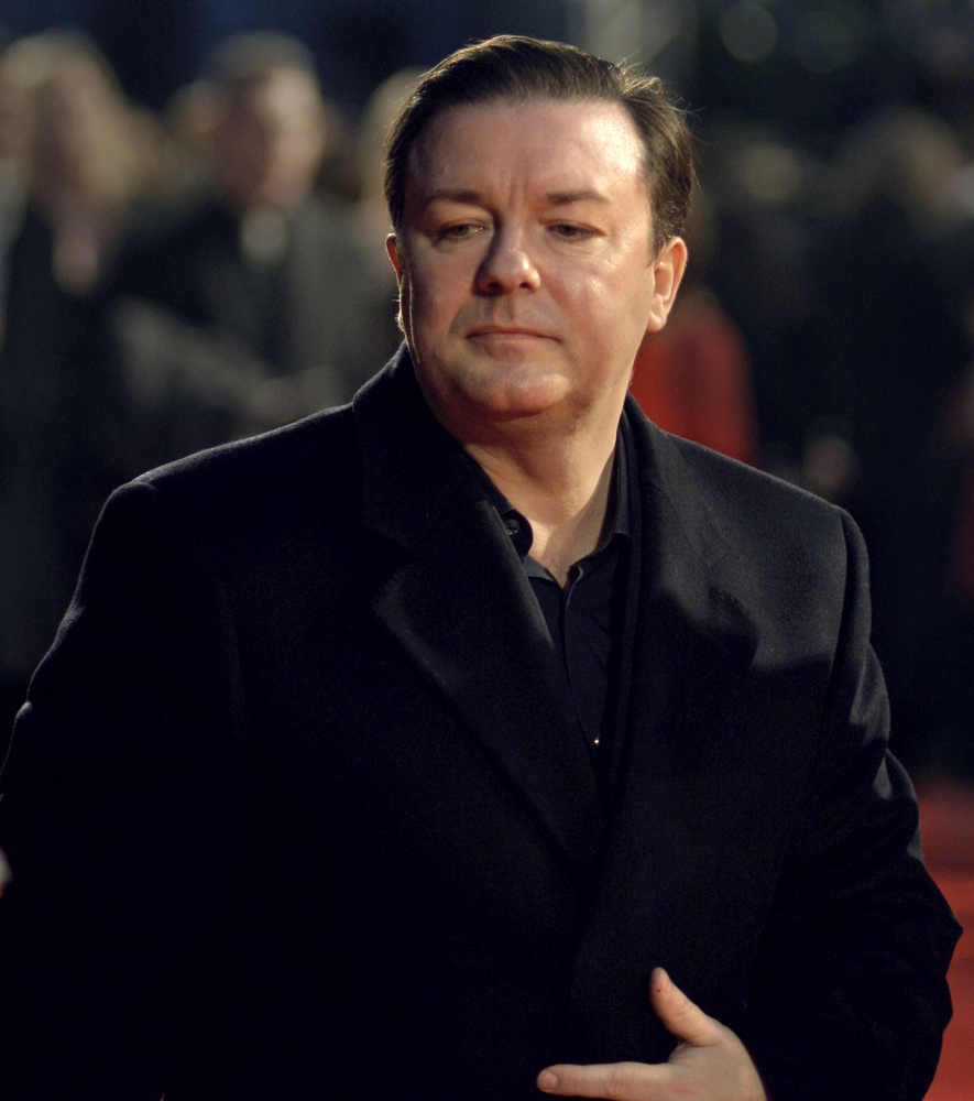 Ricky Gervais at the 2007 BAFTAs